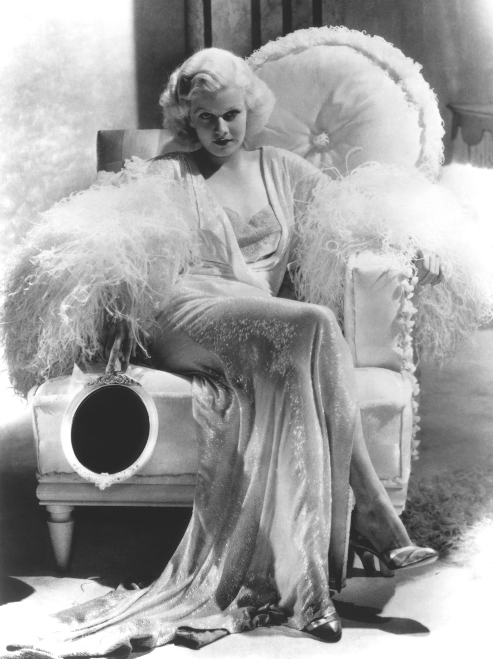 Photograph of Jean Harlow from the cover of Time magazine, Volume 26 Issue 8. Time failed to renew the copyrights of many early issues; see wikisource:Time (magazine). Photograph is a promotional still for Dinner at Eight (1933). An alternate pose from the same session appears here, identifying the photographer and subject.